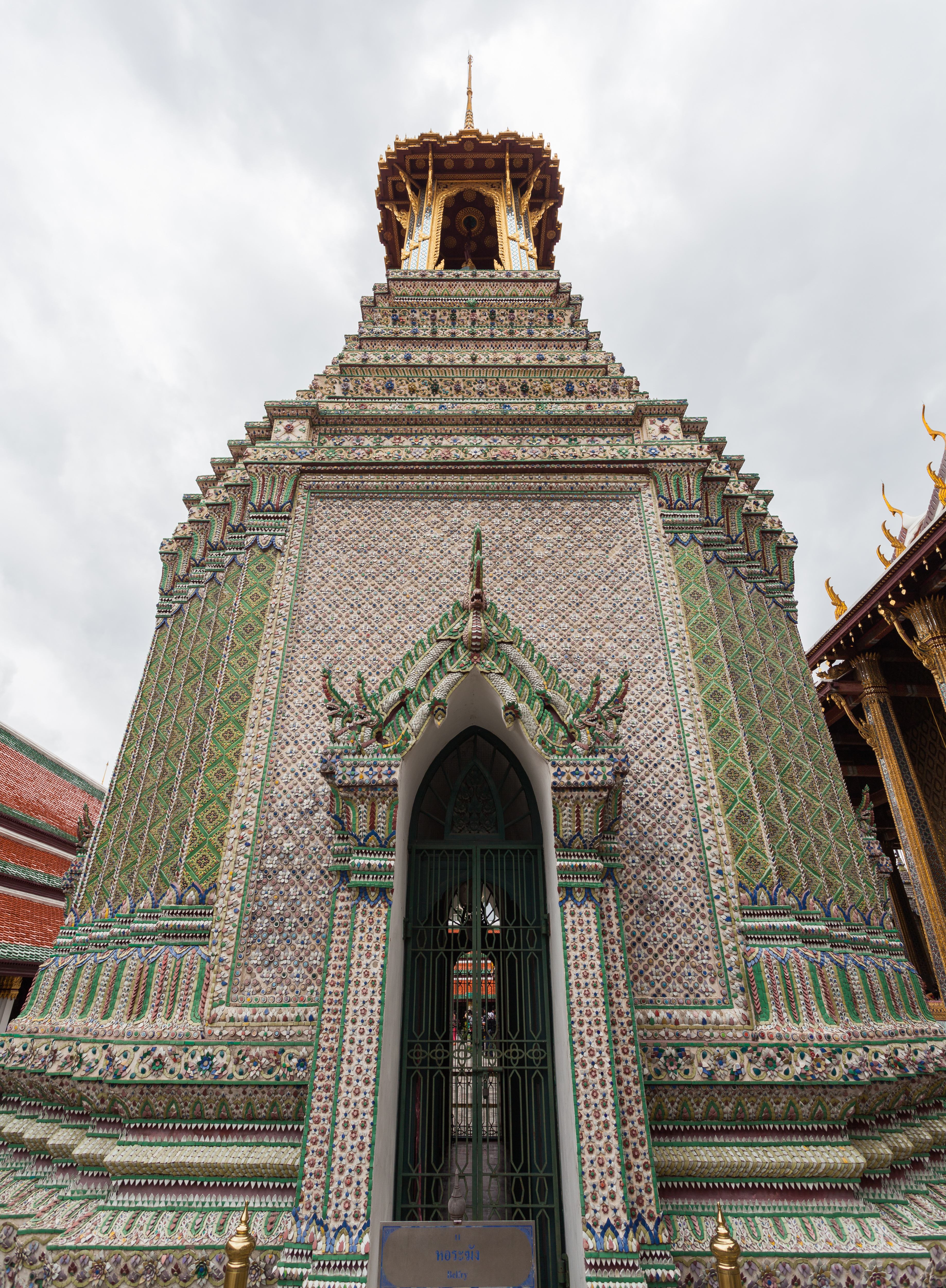 Belfry of Wat Phra Kaew, Bangkok, Thailand